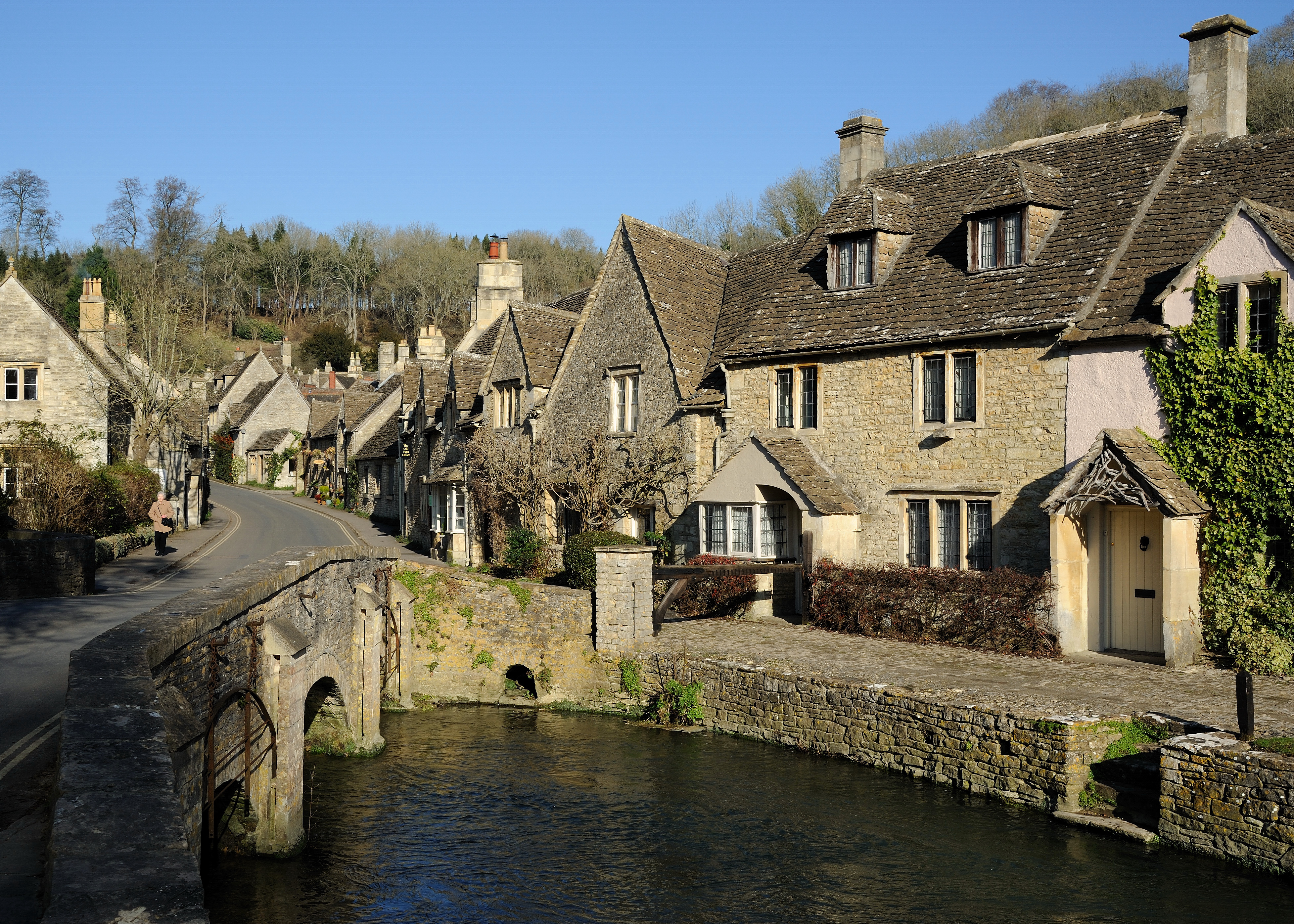 Castle Combe is a small Cotswold village in Wiltshire, England. It is renowned for its attractiveness and for fine buildings including the medieval church. More recently it was the setting for the movie "The War Horse".